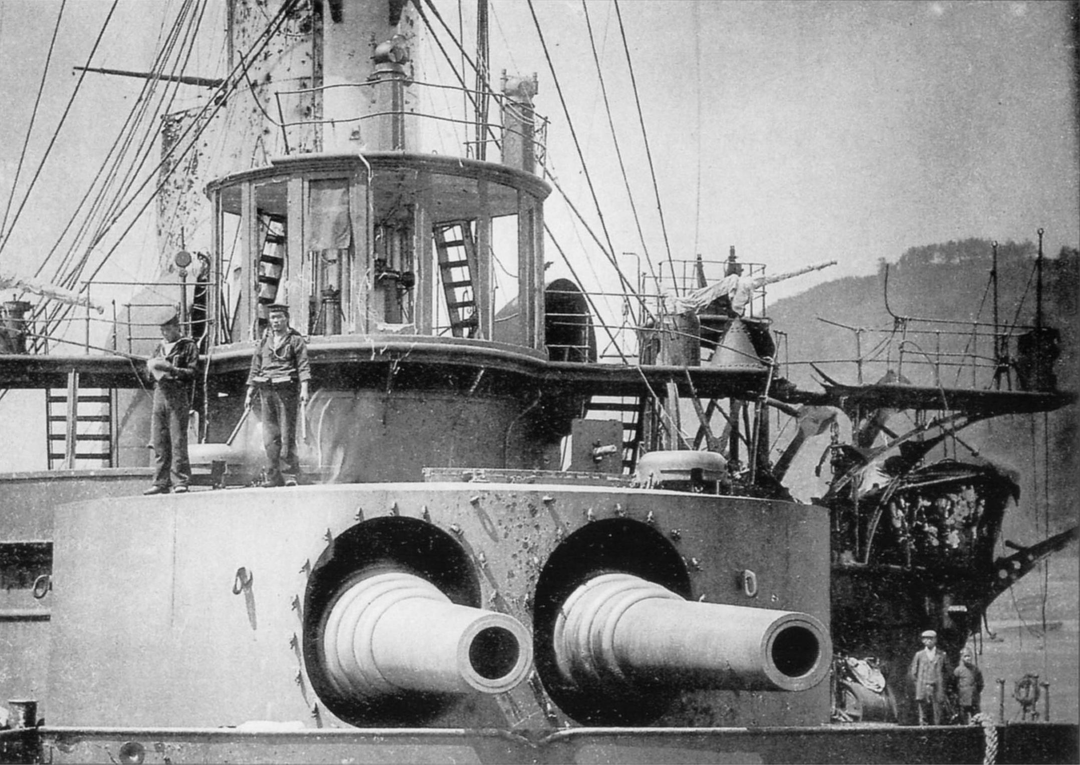 Imperial Russian battleship Imperator Nikolai I after battle of Tsushima, 1905.